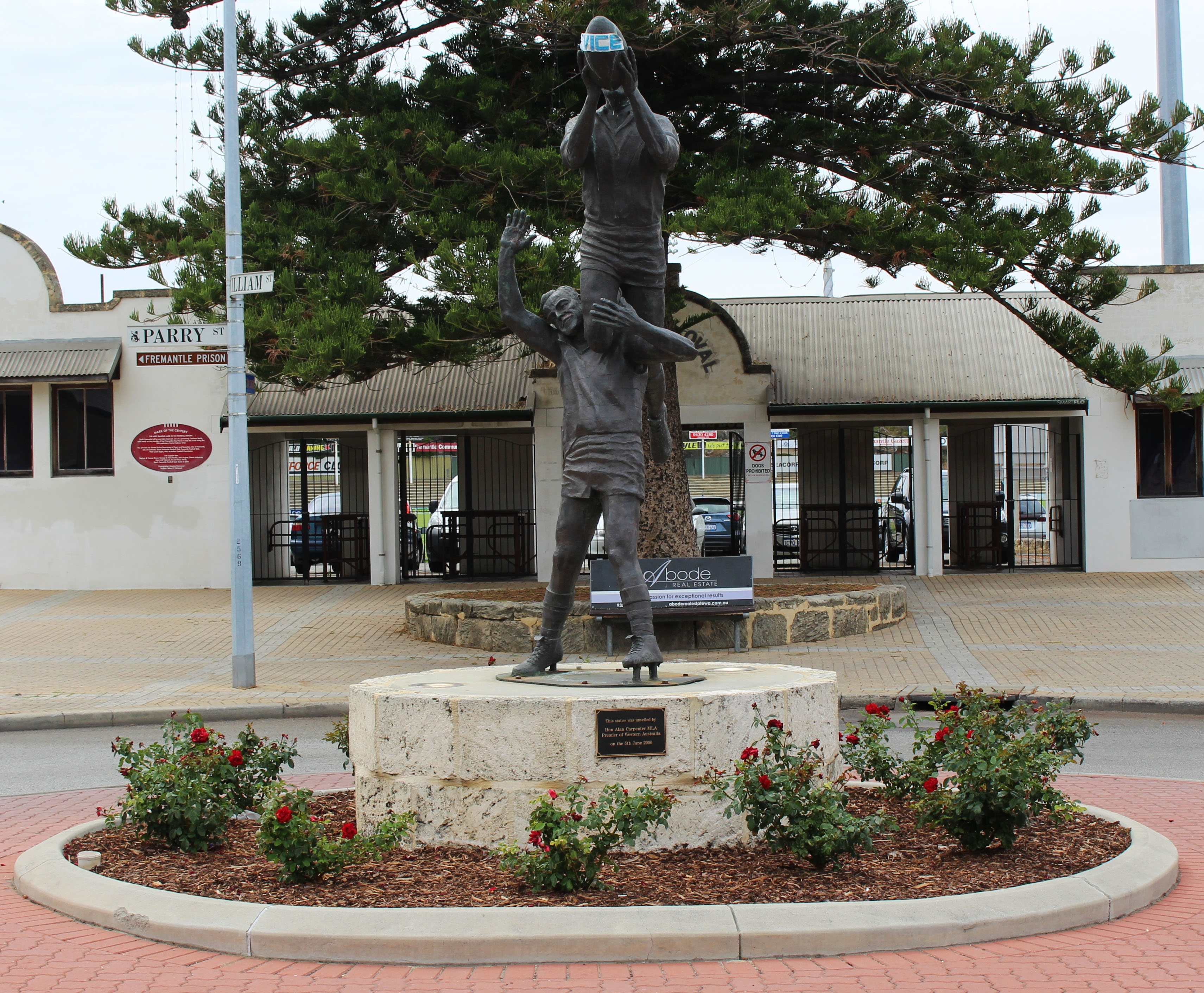 Statue by Robert Hitchcock outside the gates Fremantle Oval of the famous mark by South Fremantle's John Gerovich over East Fremantle's Ray French at the 1956 WAFL preliminary final. Photographed in February 2015